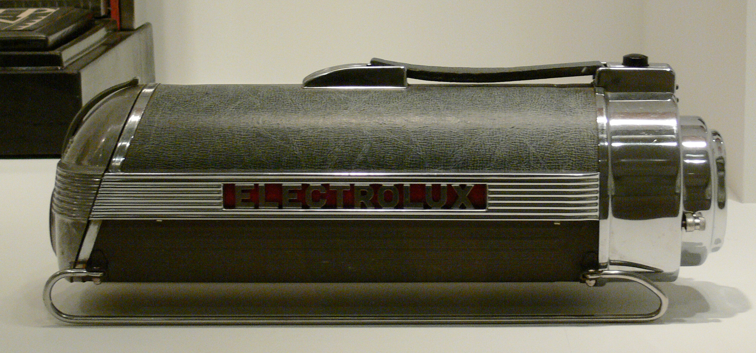 Electrolux vacuum cleaner (model 30), designed in 1937 by Lurelle Guild Dallas Museum of Art, Dallas, Texas; , gift of John T. Howell and Thomas J. Howell in memory of their father John P. Howel; object number 1995.53.A-D